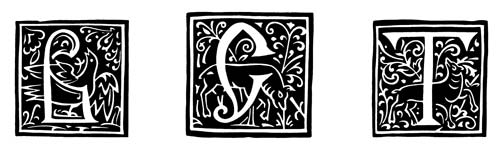 The initials from the book «Brashno spiritual». The Kuteinsky monastery, the beginning of 1630th years. Spiridon Sobol